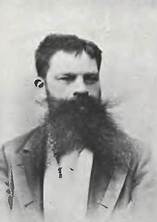 Polish painter Edward Mateusz Römer (1848-1900)